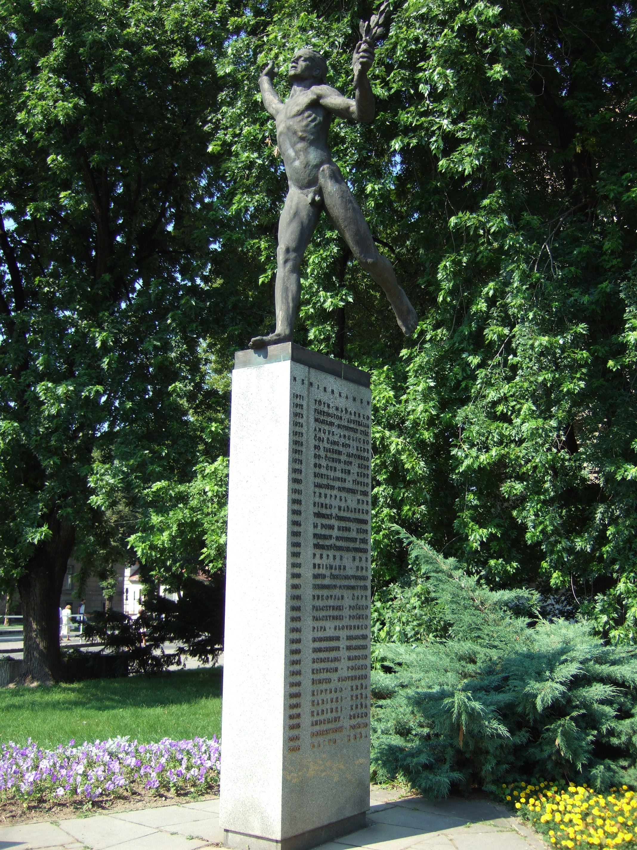 Sculpture of Marathoner in Košice, Slovakia